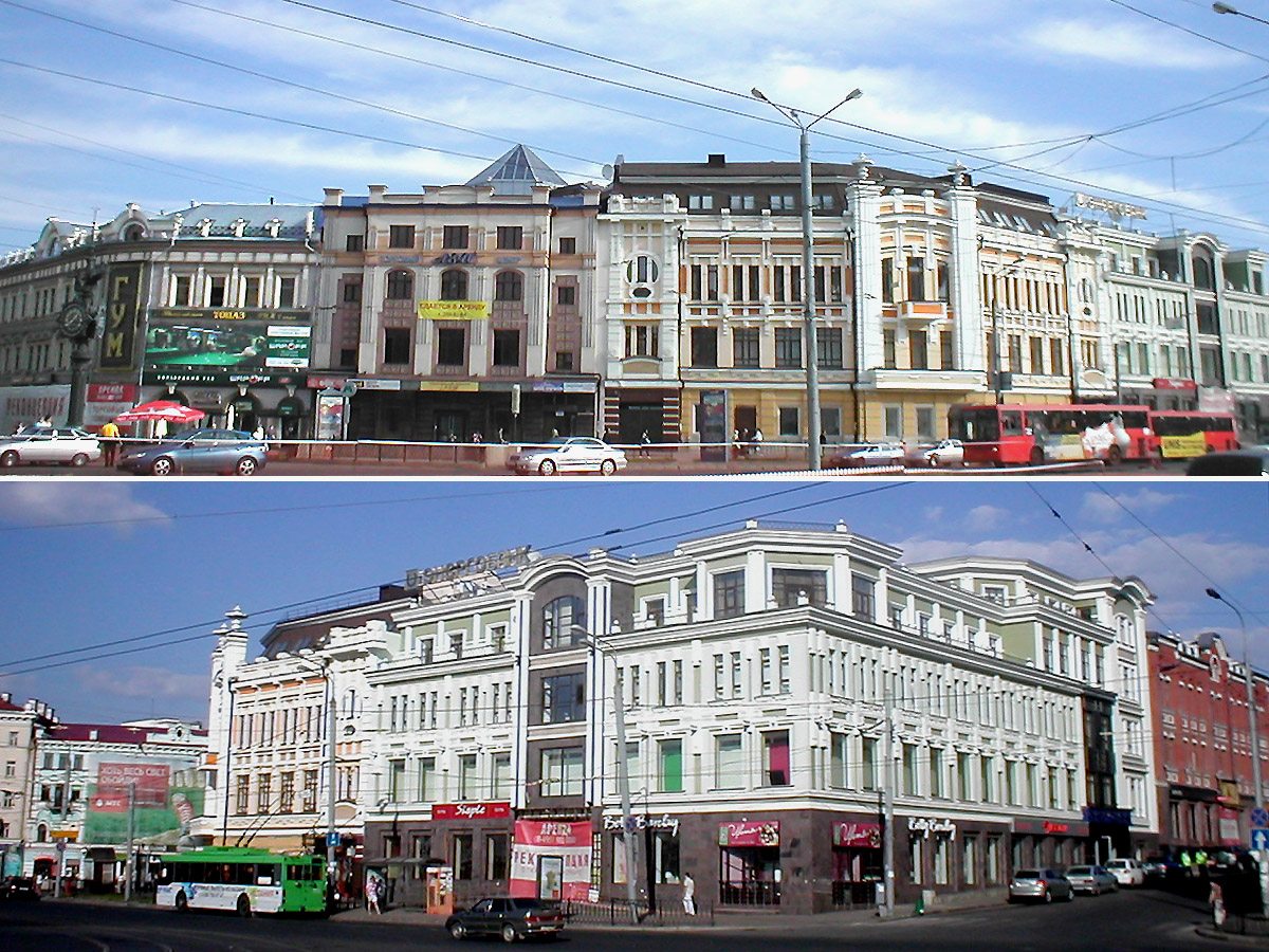 GUM store in Kazan